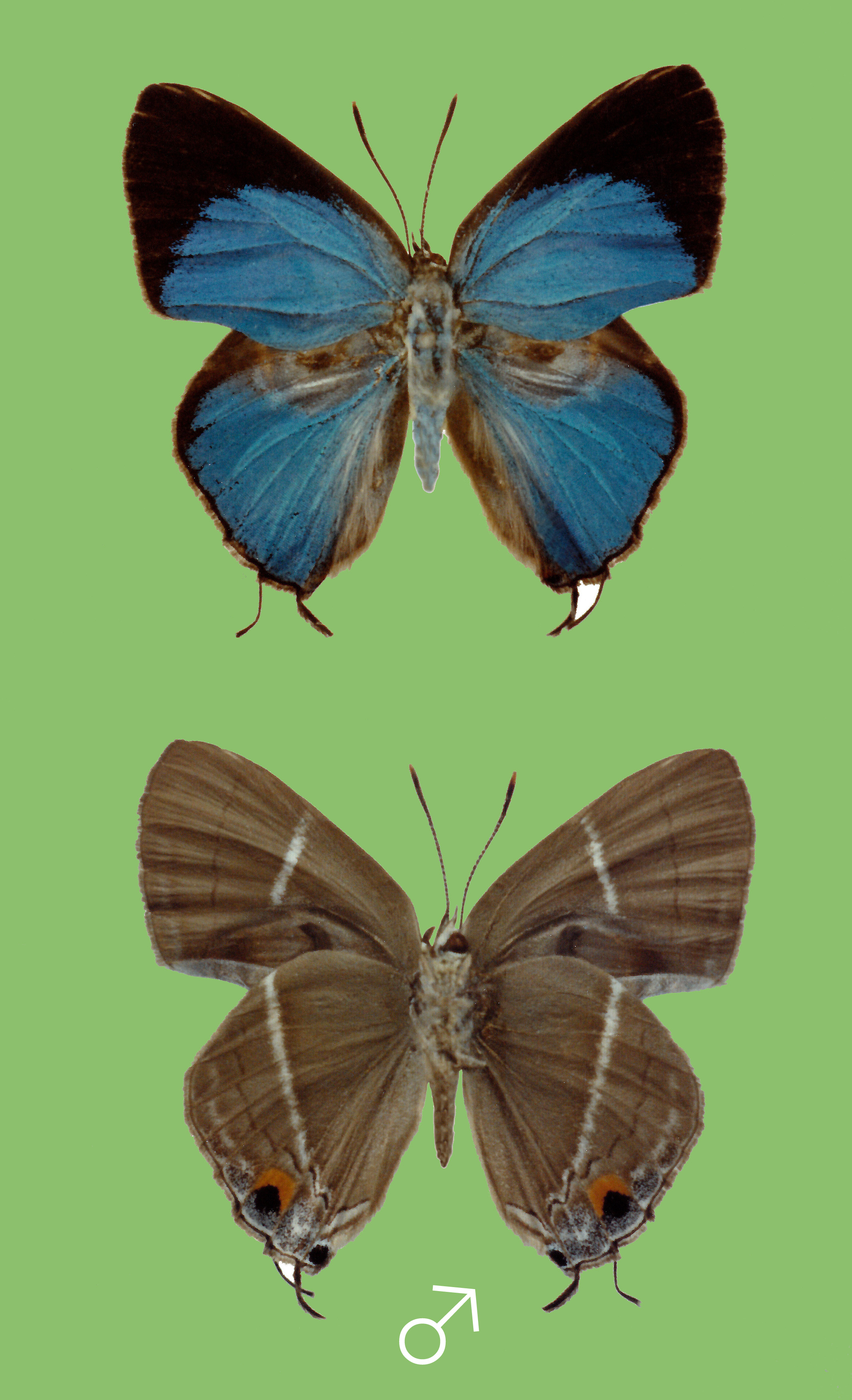 Dacalana treadawayi, male , upper & underside